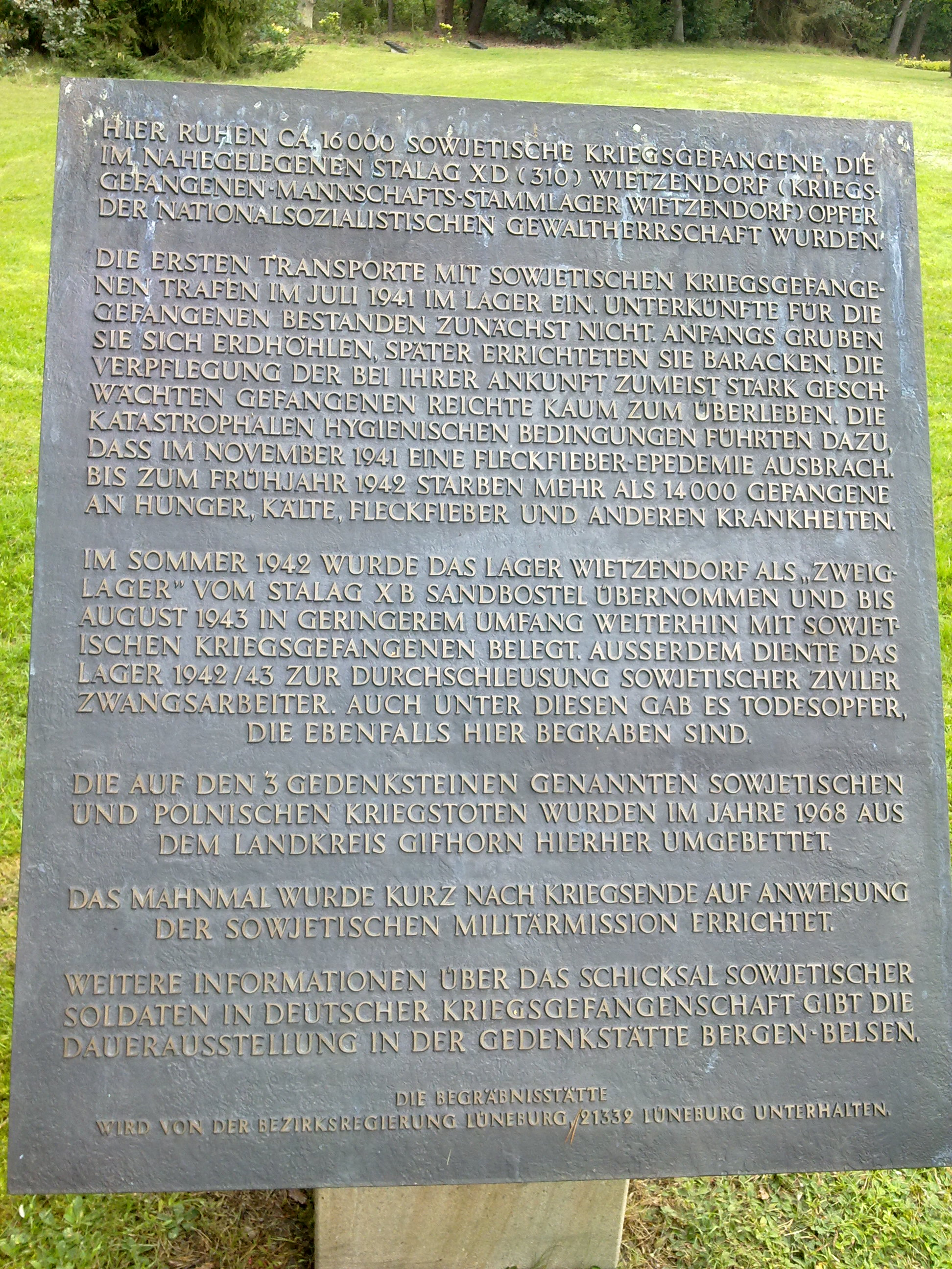 German plate at Wietzendorf POW Memorial